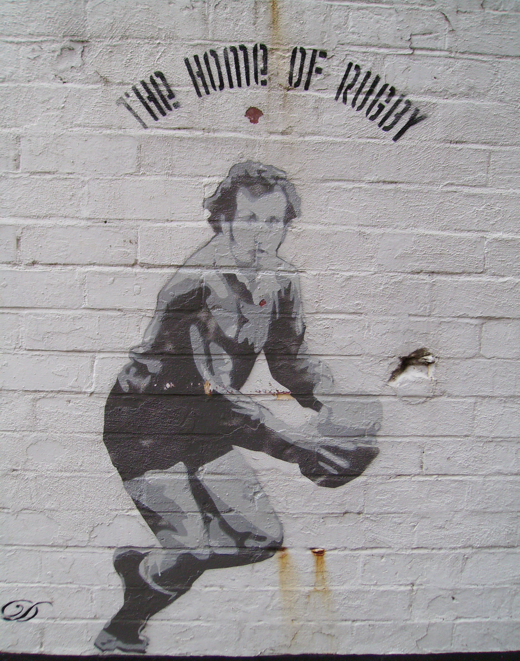 Painting at the rear of the East Stand, Cardiff Arms Park, Wales